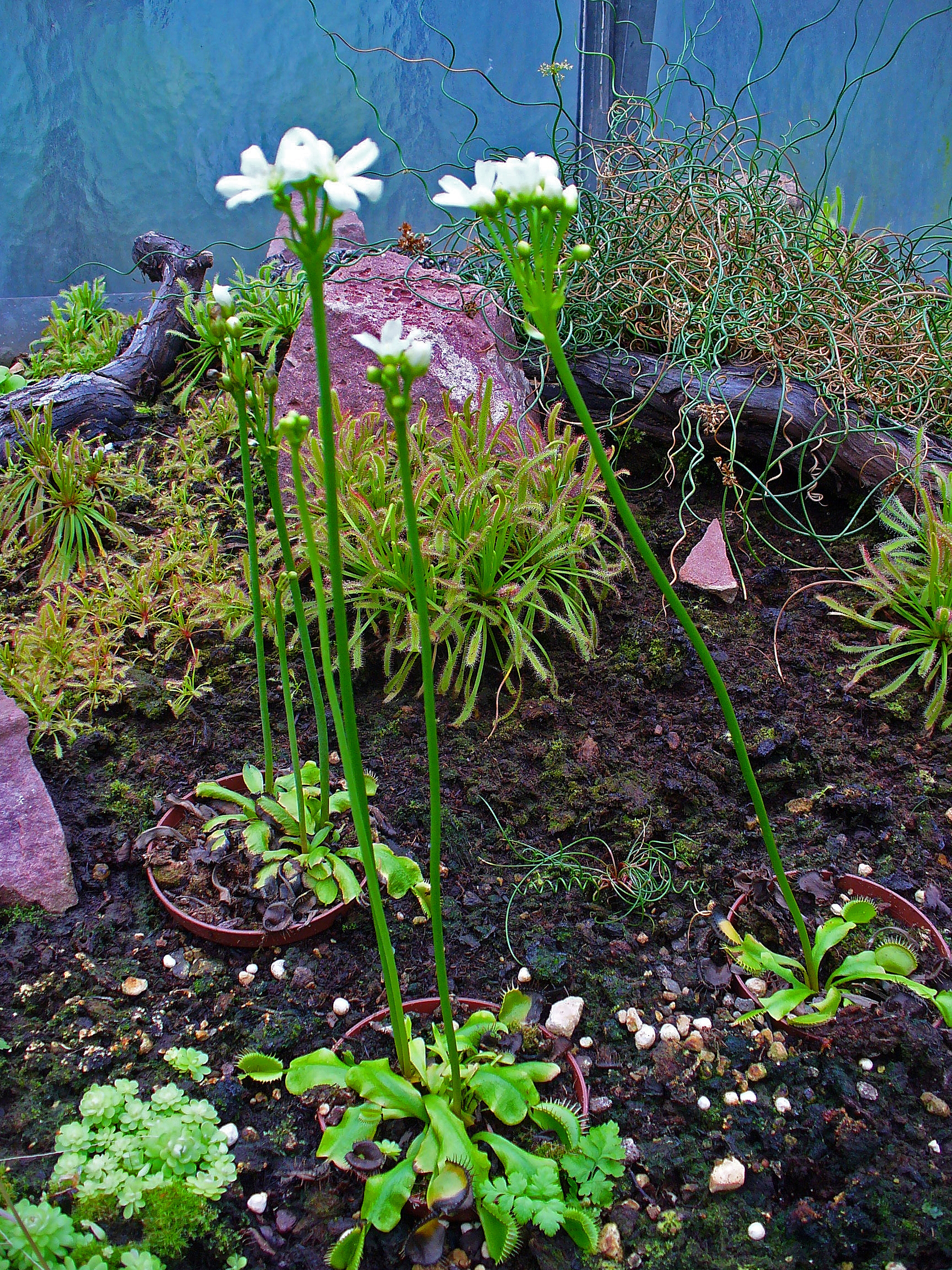 Dionaea muscipula, Droseraceae, Venus Flytrap, habitus; Botanical Garden KIT, Karlsruhe, Germany. The plant is used in homeopathy as remedy: Dionaea muscipula (Dion-m.)